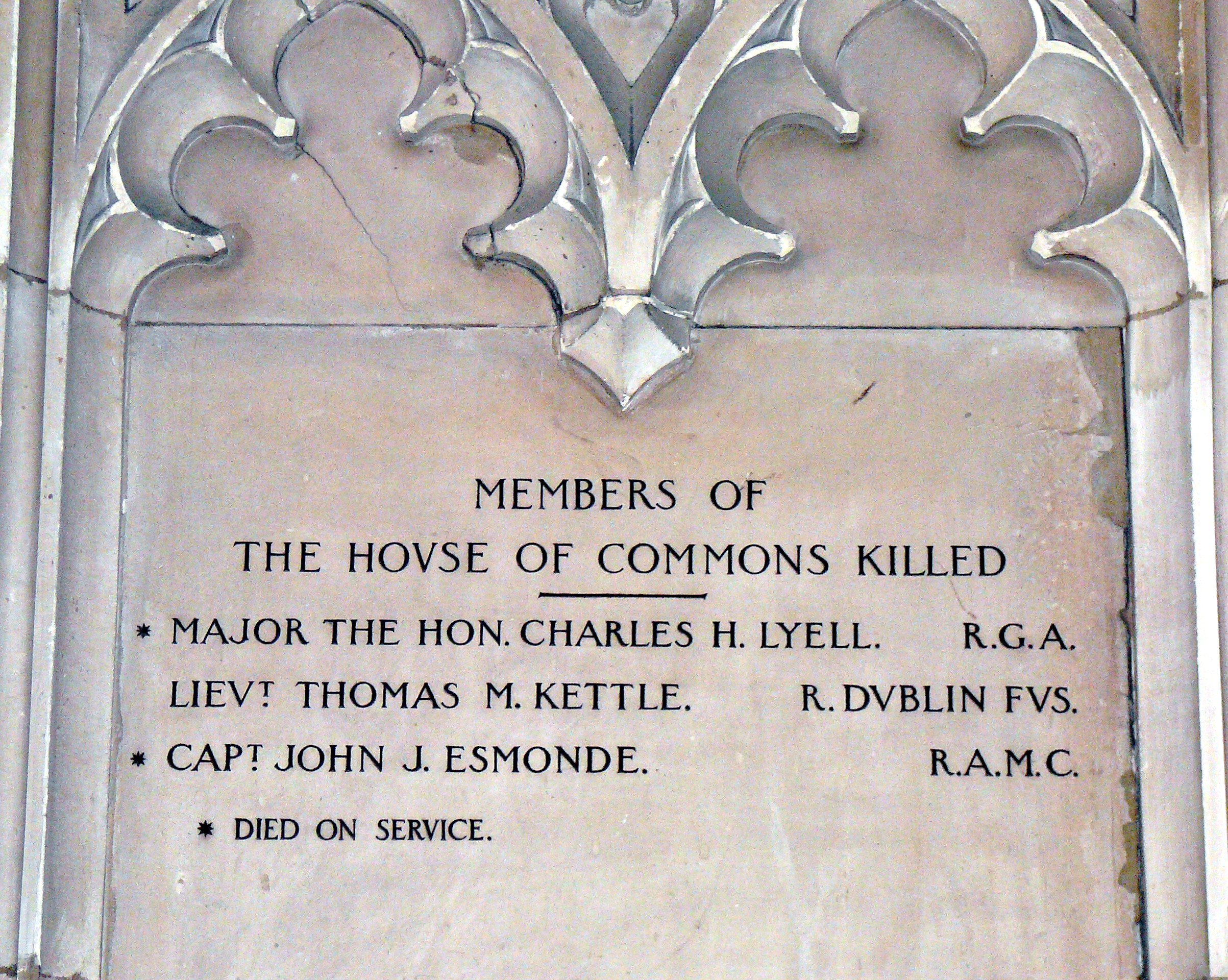 Panel at the St Stephen's Porch south end of Westminster Hall, House of Commons, London showing the names Thomas M. Kettle and John J. Esmonde who lost their lives during the Great War 1914-1918. It is the first of eight panels listing the names of Members of Parliament and their sons killed during the war. The centre piece of the eight panels can be viewed under Great War Memorial, House of Commons.